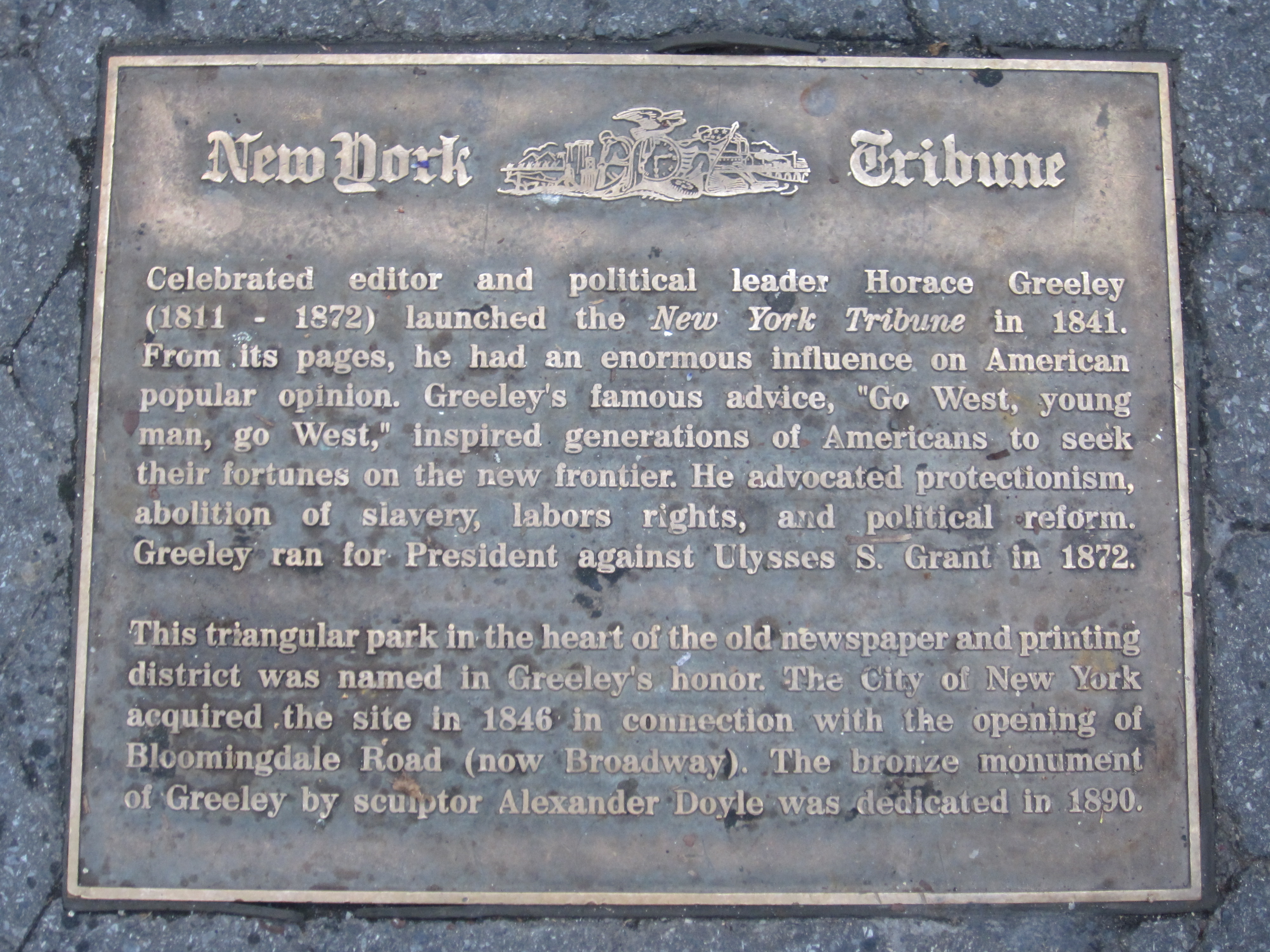 Plaque below Horace Greeley statue